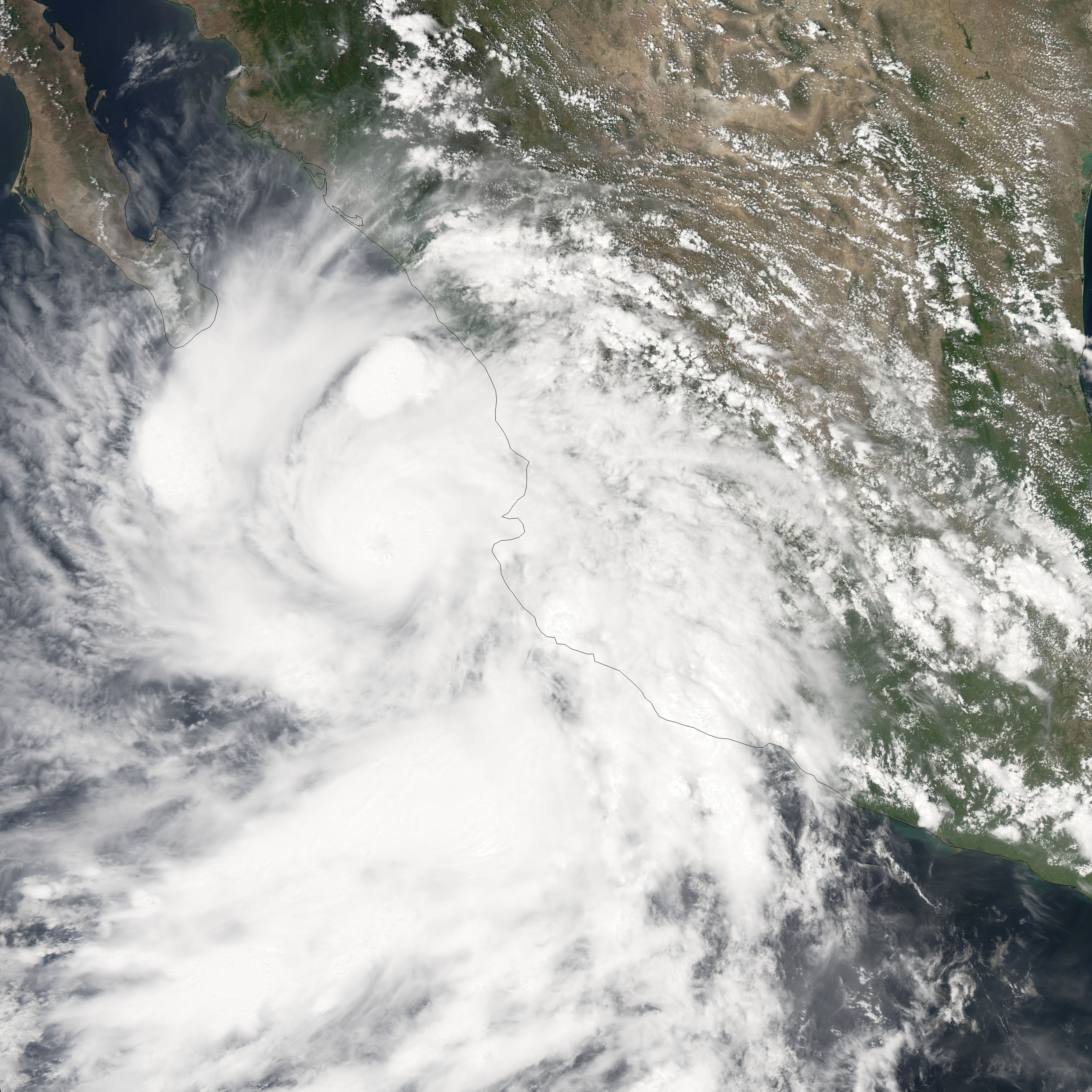 As of September 1, 2006, Hurricane John had been lashing the Mexican Pacific coast for several days. The storm system center was remaining offshore and predictions held that it would only briefly come ashore as it clipped the southern tip of Mexico’s Baja California on its track up along the Pacific coast. It is unusual for a eastern Pacific hurricane to come ashore without breaking apart into a lesser storm system because of prevailing wind patterns and cold water upwelling along the coast. Hurricane John, however, has managed to run parallel to the Mexican coast for several days. The most powerful hurricane force winds were not over land, but the Category Four hurricane was large enough to bring strong winds and heavy surf to the coastal areas. This photo-like image was acquired by the Moderate Resolution Imaging Spectroradiometer (MODIS) on the Aqua satellite on August 31, 2006, at 2:10 p.m. local time (20:10 UTC). Hurricane John at the time of this image had a well-defined, if widespread, shape, spiral arm structure, and a cloud-filled (“closed”) eye. Hurricane John had sustained winds of around 165 kilometers per hour (105 miles per hour) at the time this satellite image was acquired, according to The University of Hawaii’s Tropical Storm information center. This was somewhat less powerful than two days earlier, when Category Four strength winds were measured in the central parts of the hurricane.